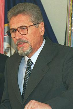 Secretary of Defense William Cohen (left) looks on as his guest, Romanian President Emil Constantinescu (right), makes a statement at the start of a joint press conference at the Pentagon, July 17, 1998.